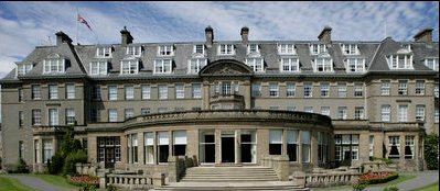 The façade of the Gleneagles Hotel, situated in Perth and Kinross, Scotland.